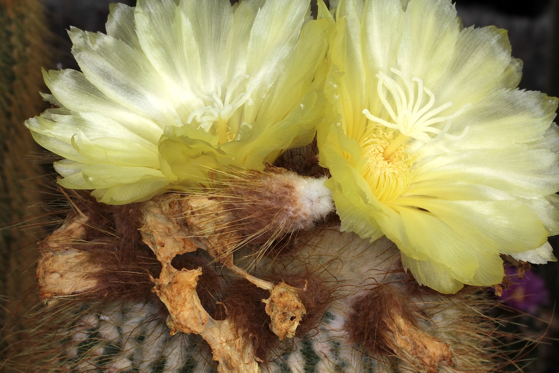 Parodia lenninghausii